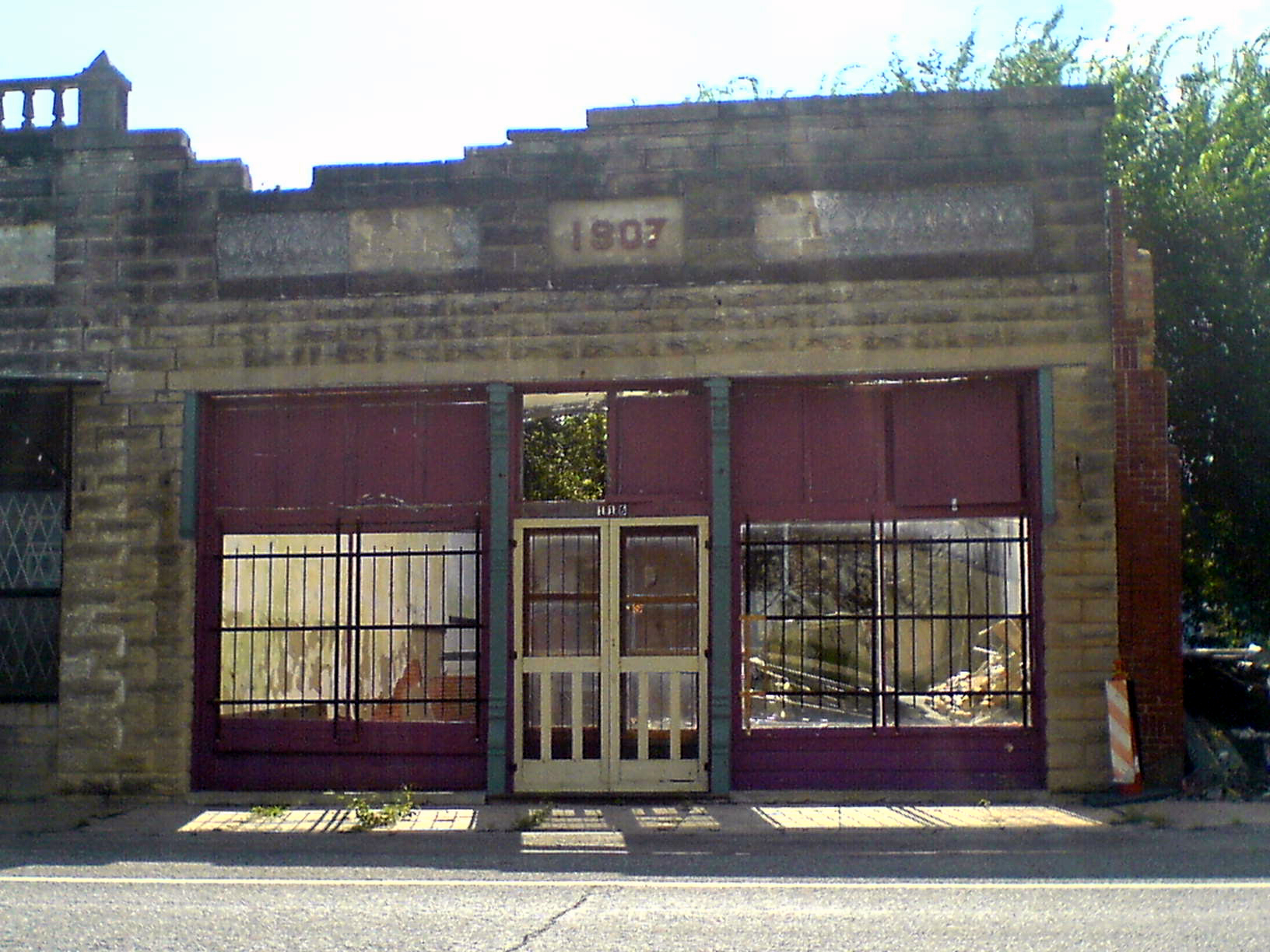 A the front facade of a former business in Forreston, dated 1907. Photo by Danny Burton, 7/15/07.